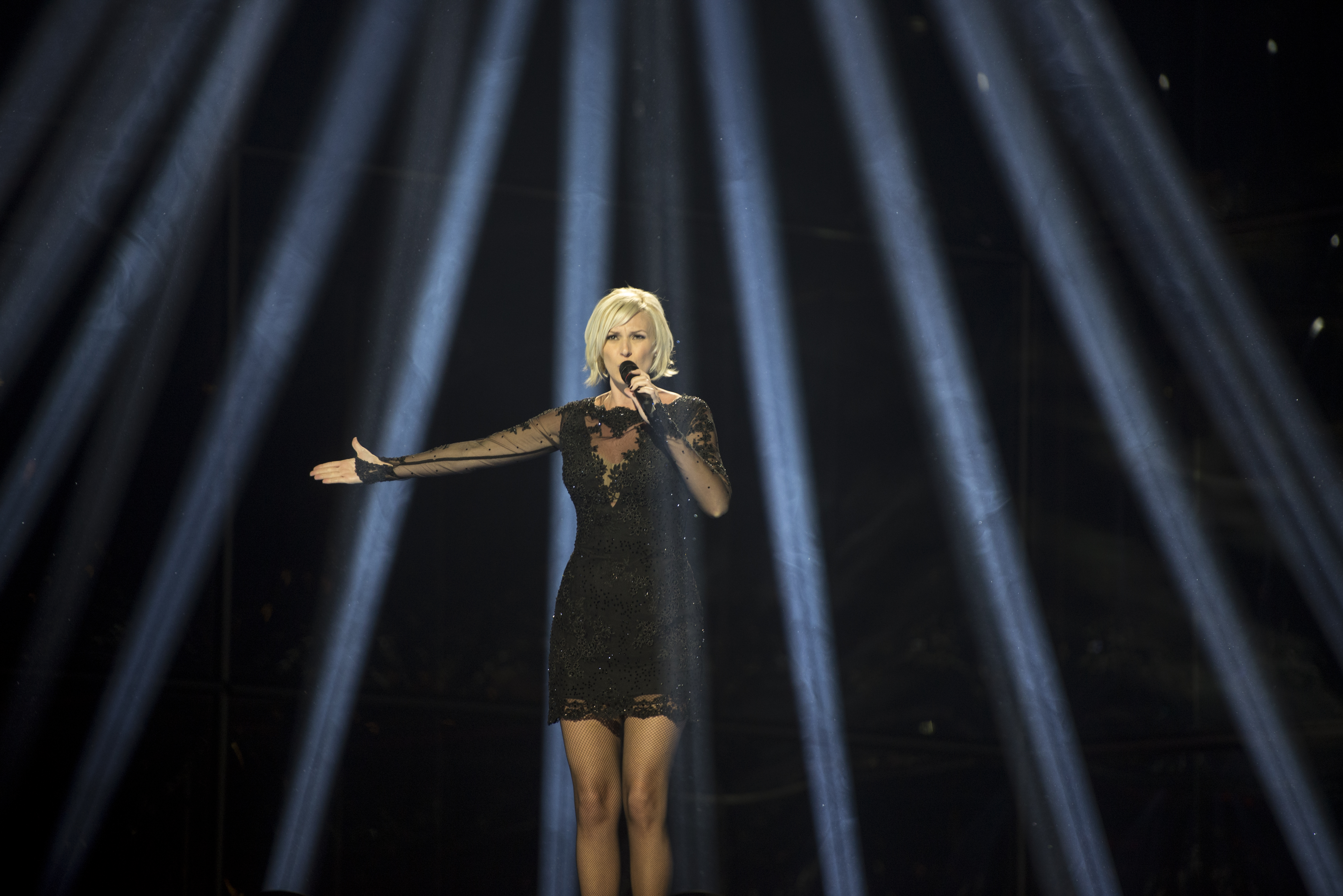 Sanna Nielsen representing Sweden with the song "Undo" during the first dress rehearsal of the first semi final of the Eurovision Song Contest 2014 Copenhagen. (Help translate this text)